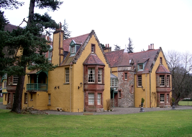 Leithen Lodge. On a private road up the valley of the Leithen Water